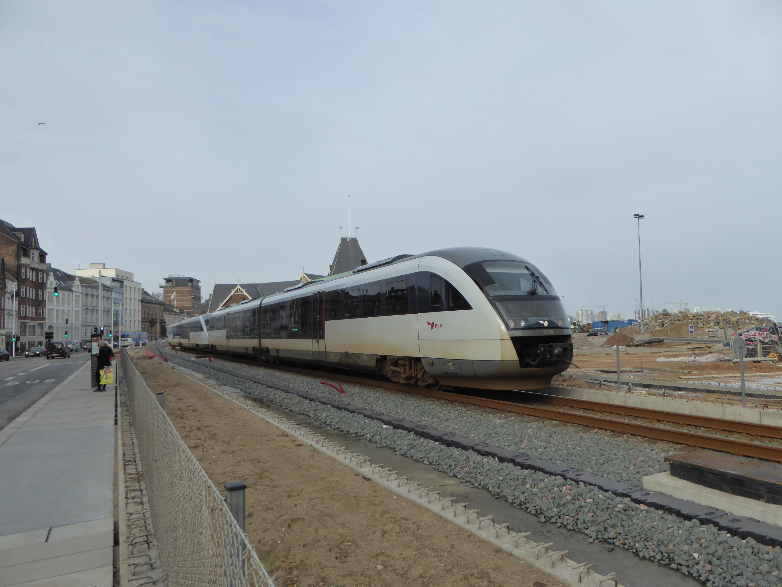 DSB Desiro between Dokk1 and Skolebakken Station on Grenaabanen in Aarhus in Denmark.